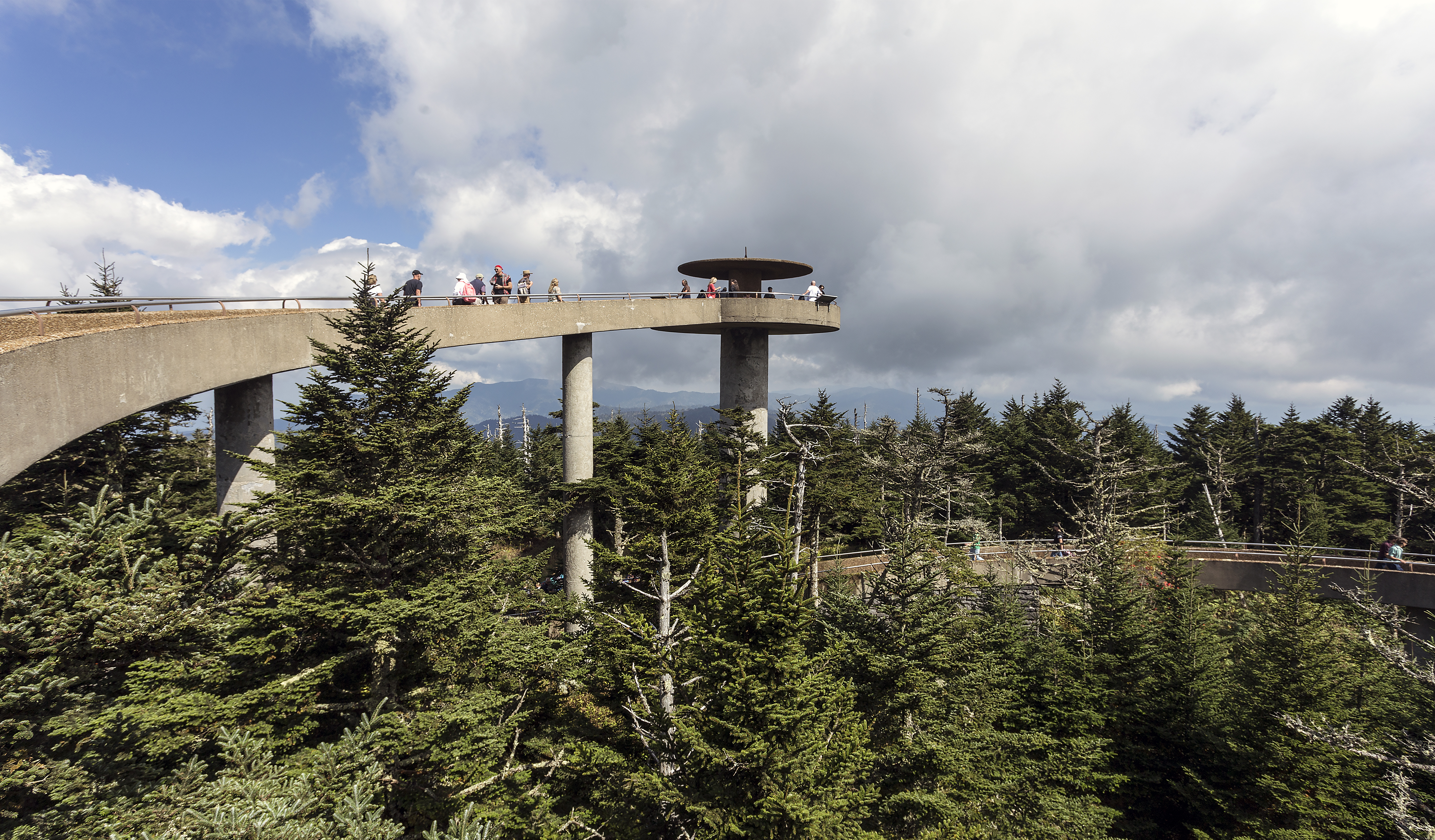 The observation tower at Clingmans Dome, Great Smoky Mountains National Park, Tennessee/North Carolina, USA